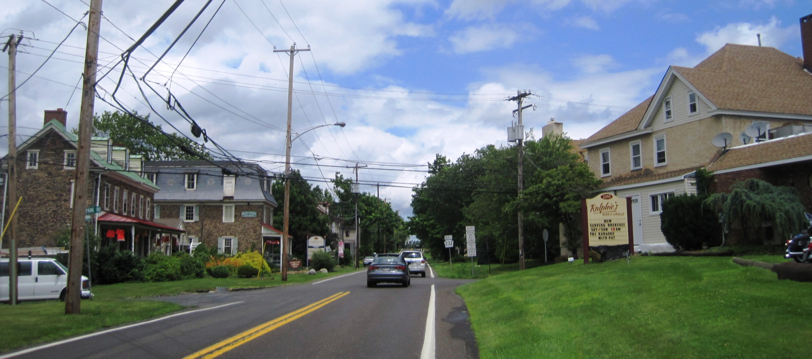 Photo of the unincorporated community of Penns Park, Pennsylvania within Wrightstown Township, Bucks County, Pennsylvania. Photo taken along northbound Second Street Pike (Pennsylvania Route 232) at Penns Park Road.